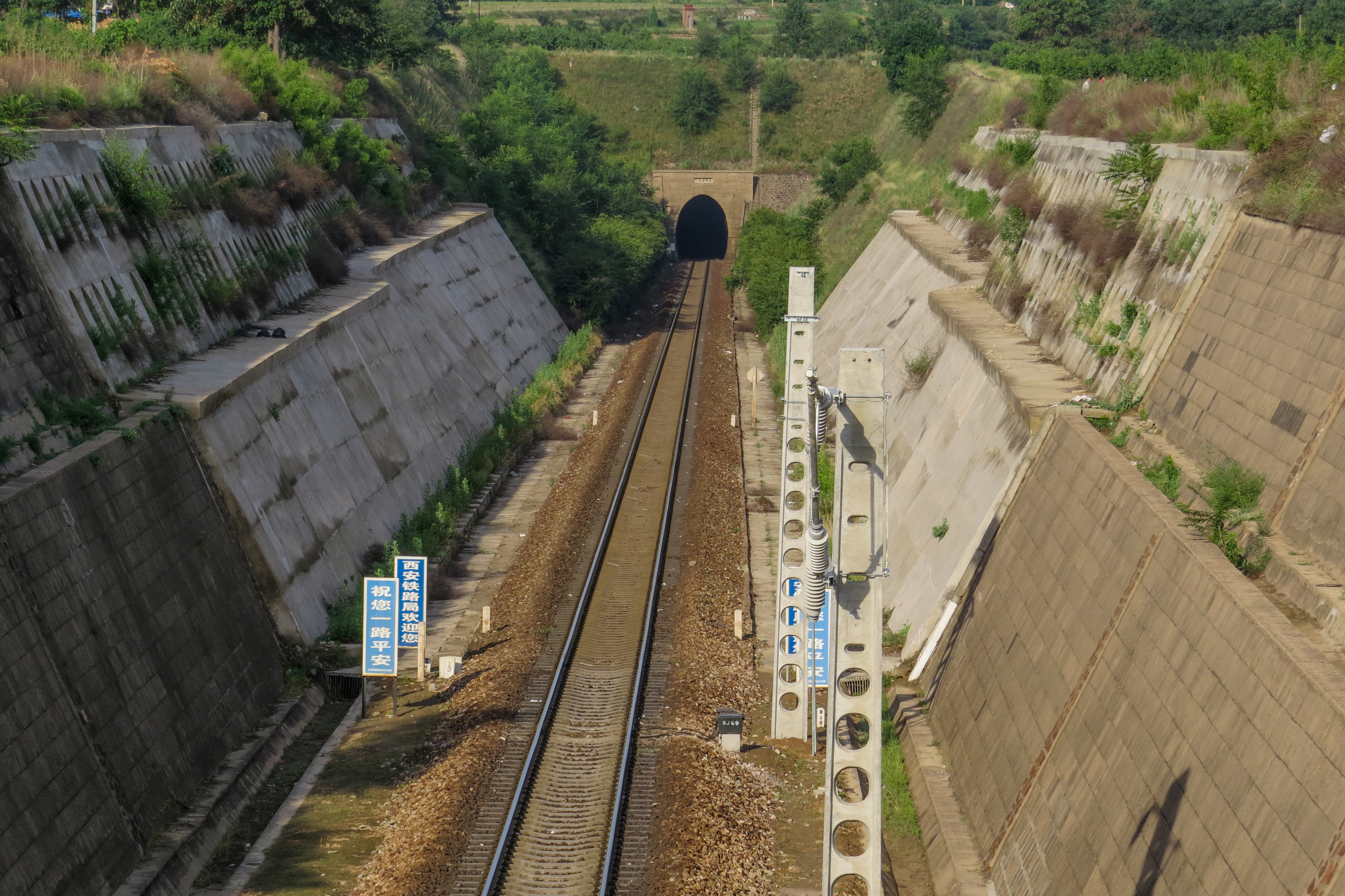 This is also the border of Taiyuan Railway Bureau and Xi'an Railway Bureau on NTP.